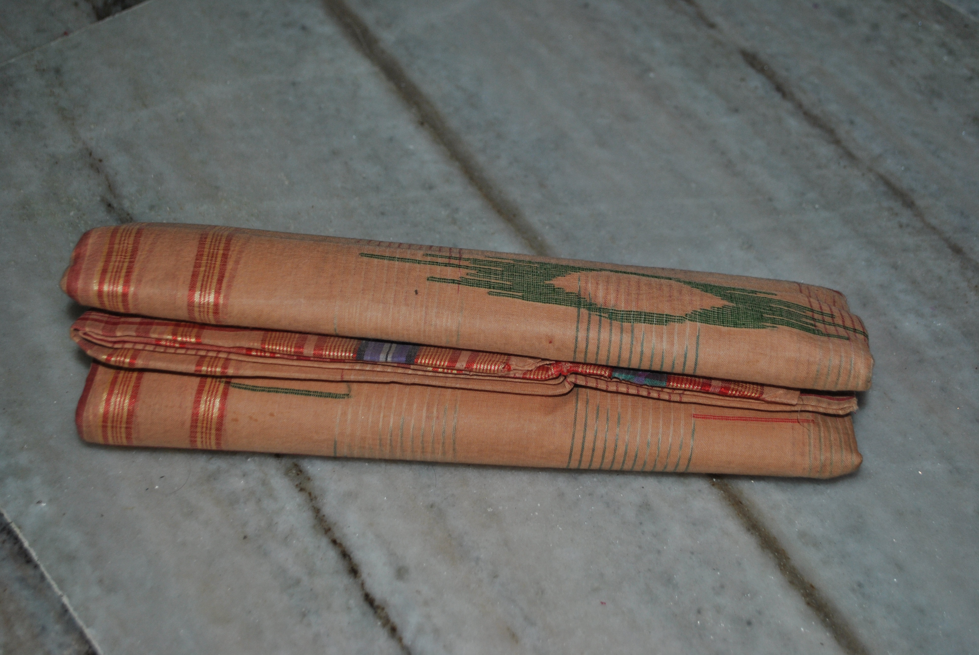 Santipur Saree